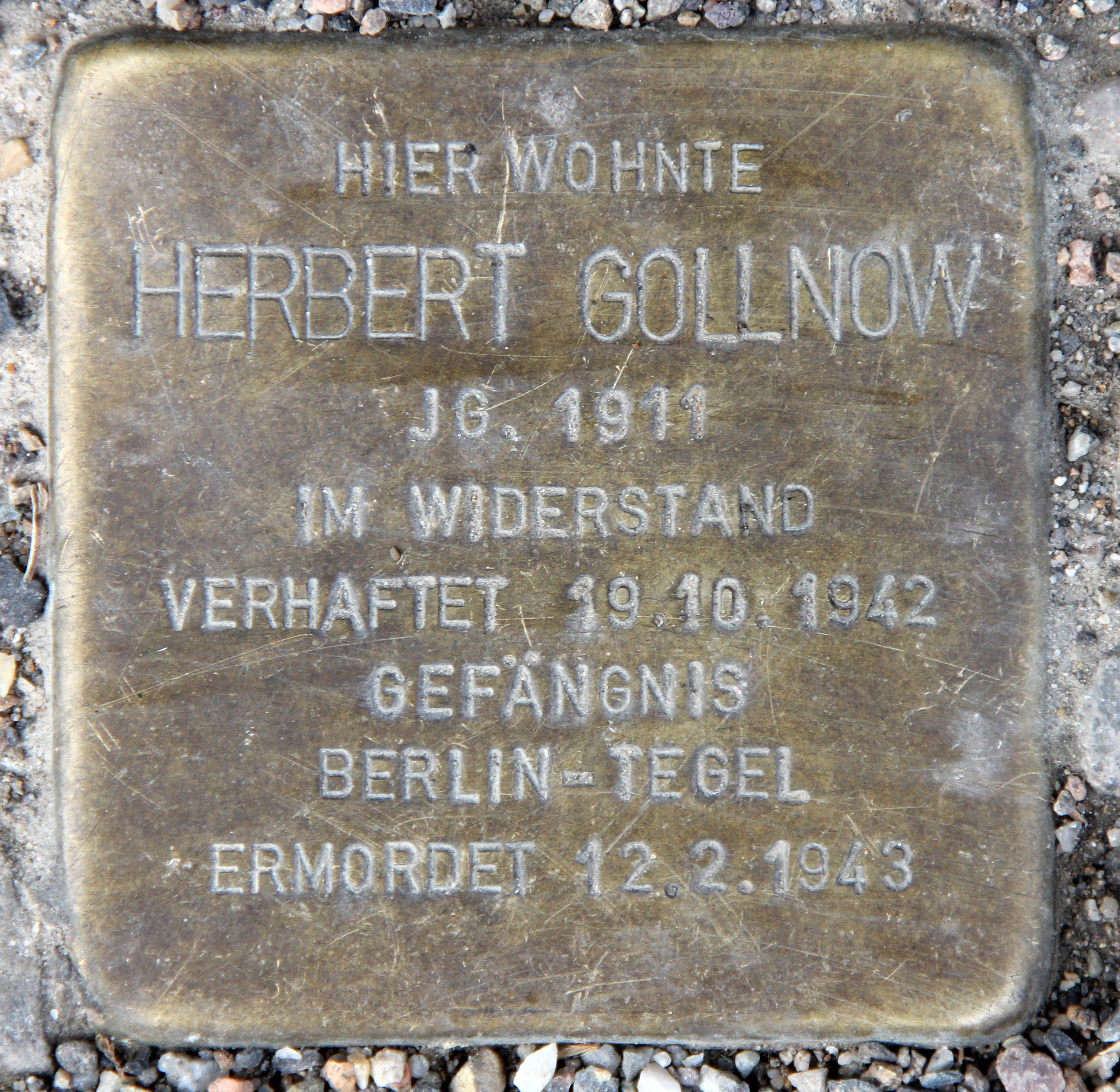 "Stolperstein" (stumbling block), Herbert Gollnow, Feldzeugmeisterstraße 5, Berlin-Moabit, Germany